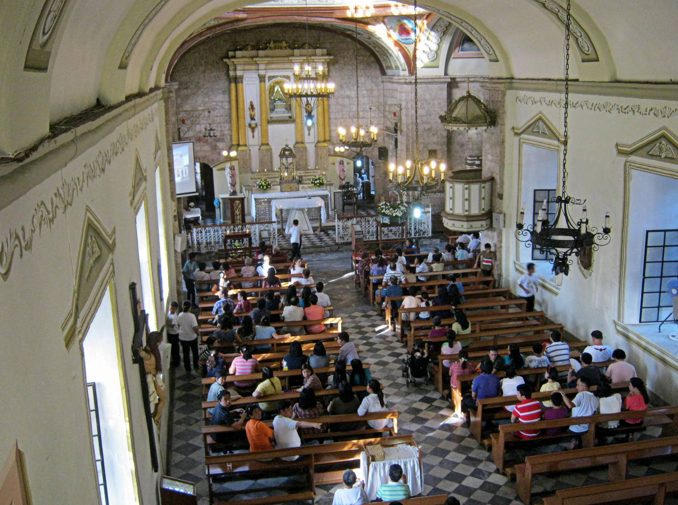 Interior of Caysasay Shrine May 2012